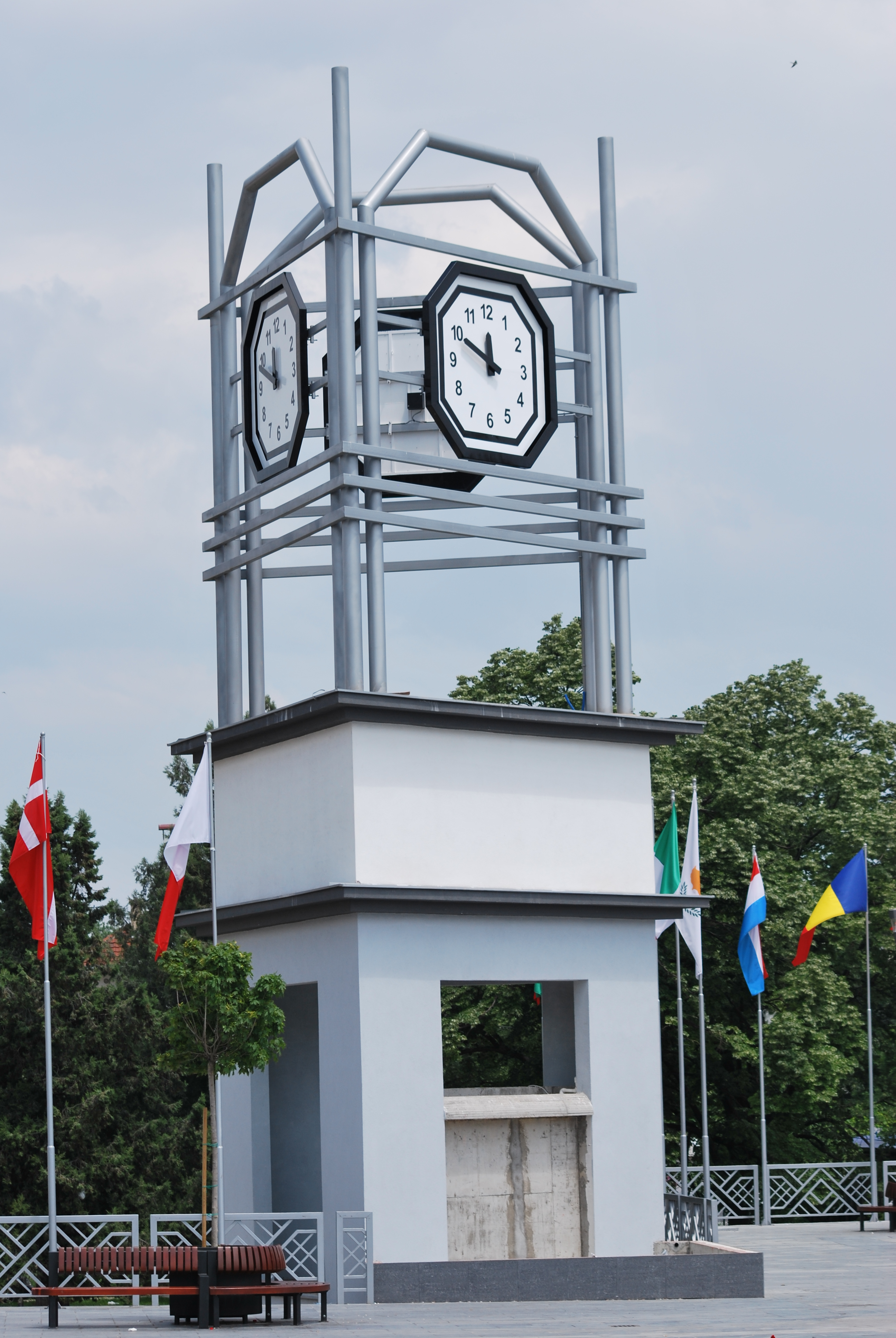 Strumica, Macedonia